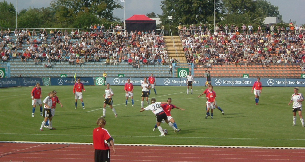 Women's soccer: Germany vs. Czech Republic, 2 August 2007, in Gera